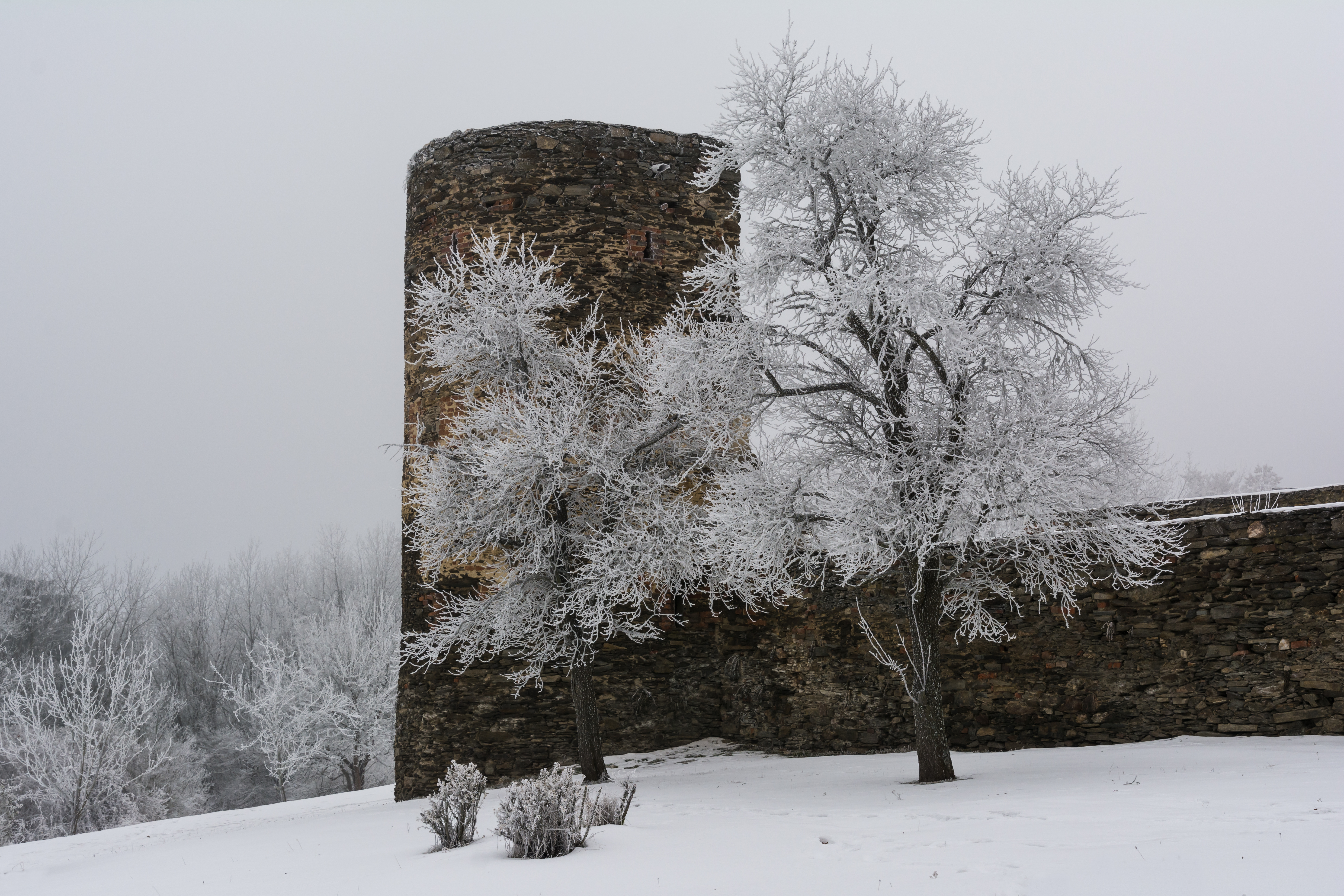 Tower of the enclosing walls of the former monastery Pernegg, Lower Austria